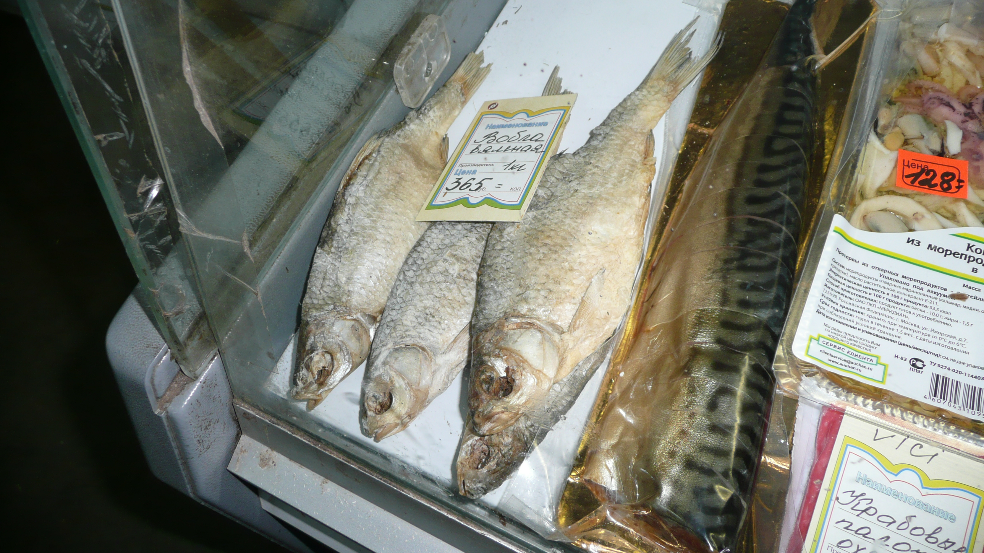 Vobla